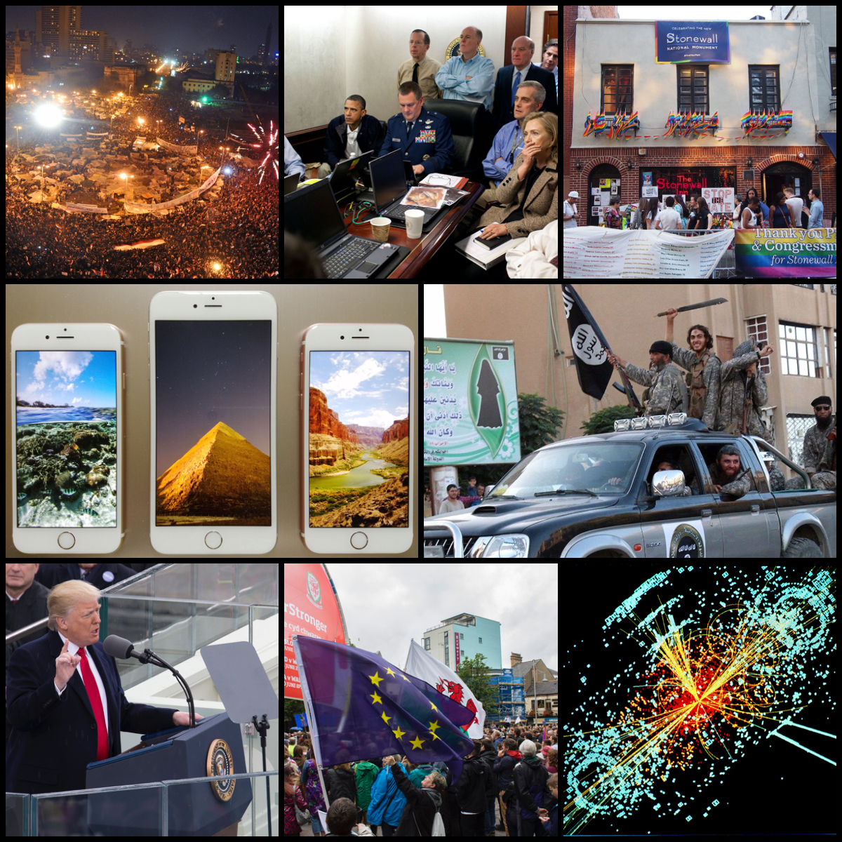 A montage of notable events in the 2010s.